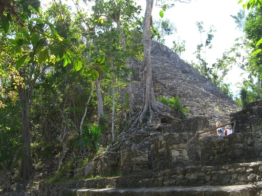 Pyramid "the castle" at Cobá, group B, Yucatán